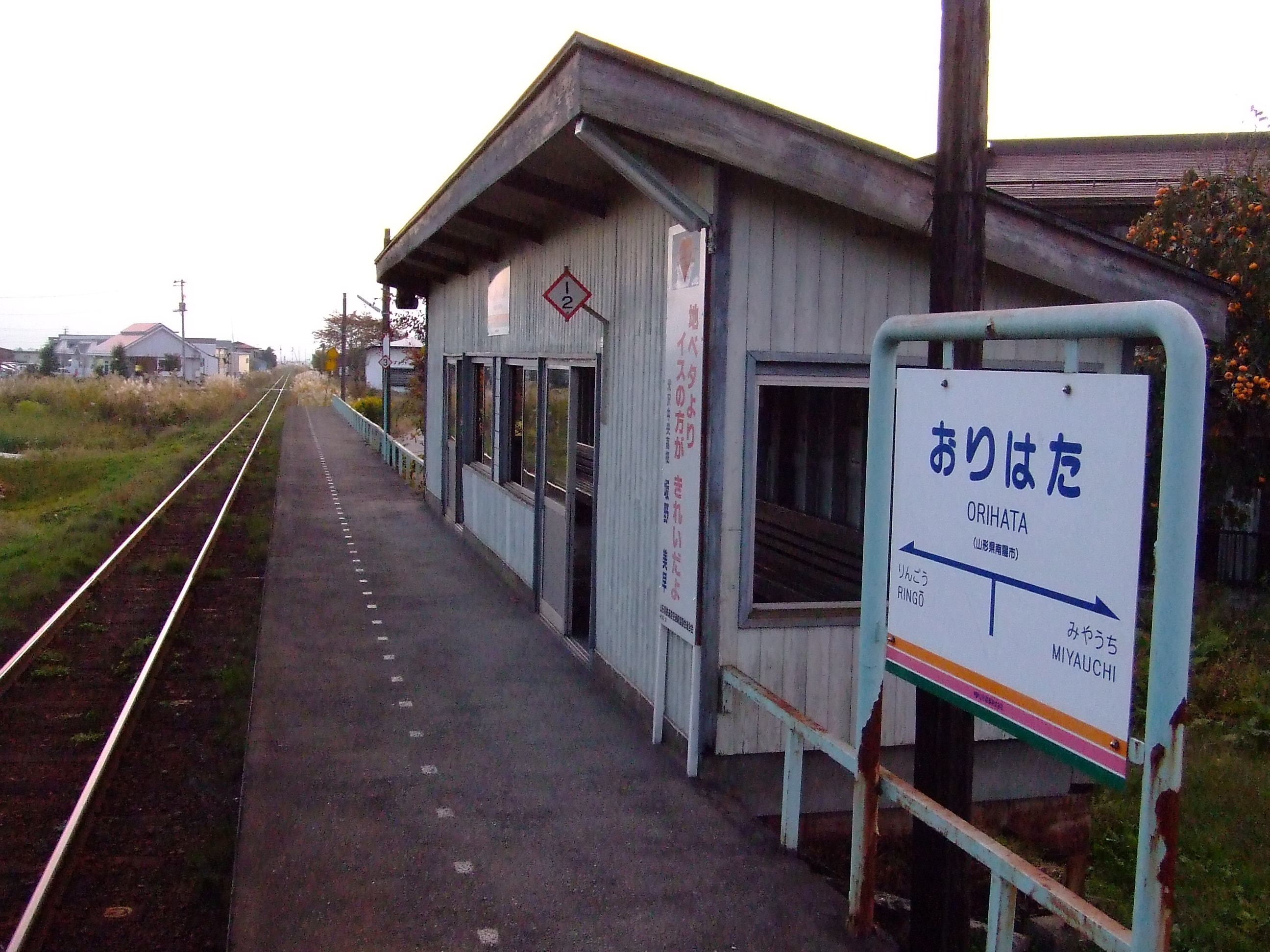 This is a photo of Orihata Station in Yamagata Prefecture, Japan. I took this photo with a digital camera on 31st October 2006.